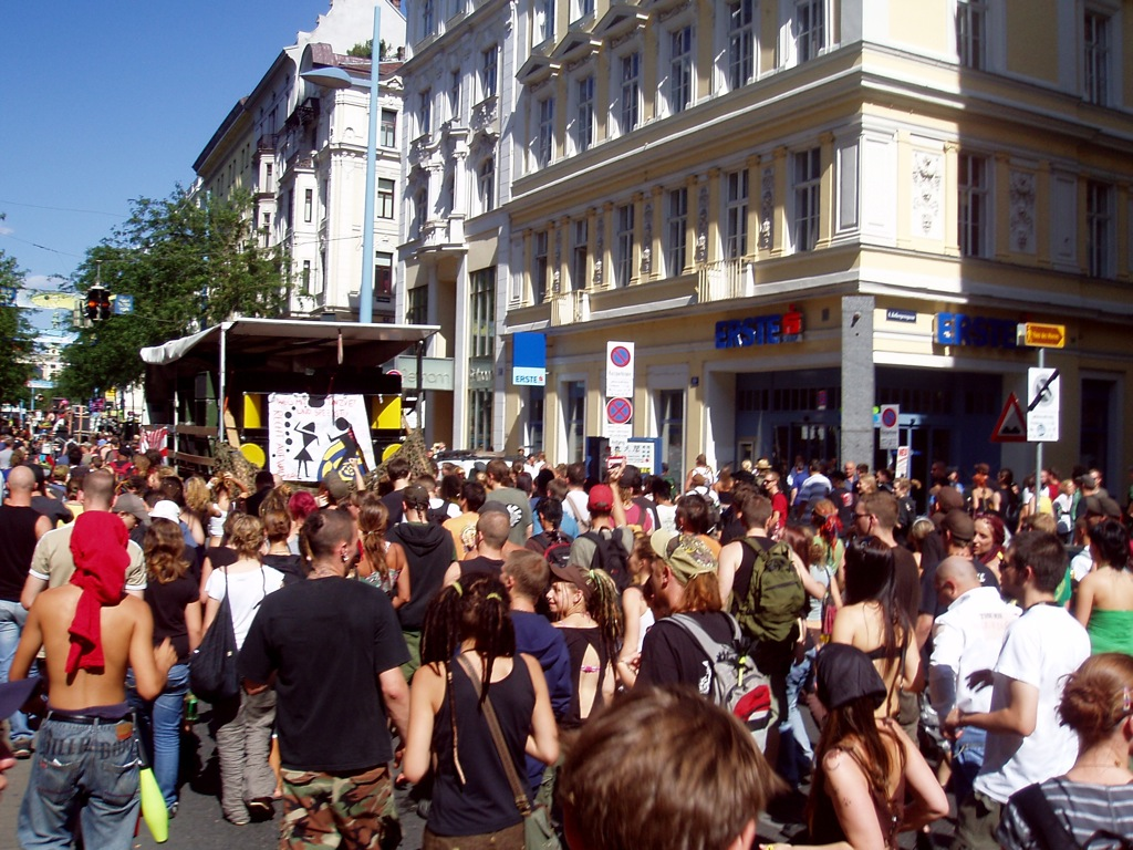 Freeparade 2007, Vienna